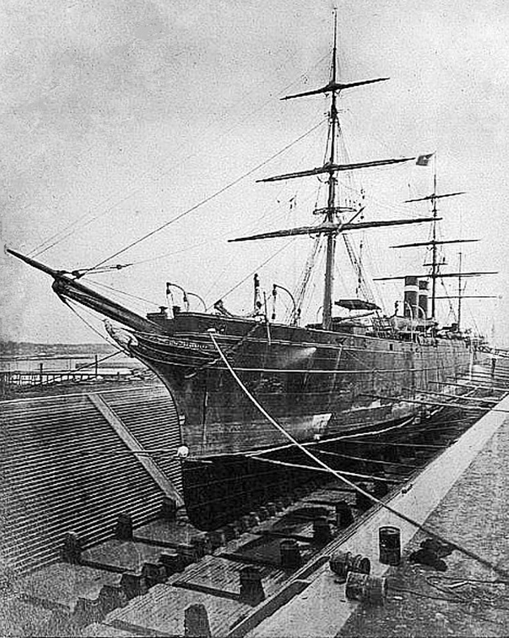 City of Brussels in dry dock 1869, possibly where she was re-engined by George Forrester & Co, Liverpool Nov 1876-1877.